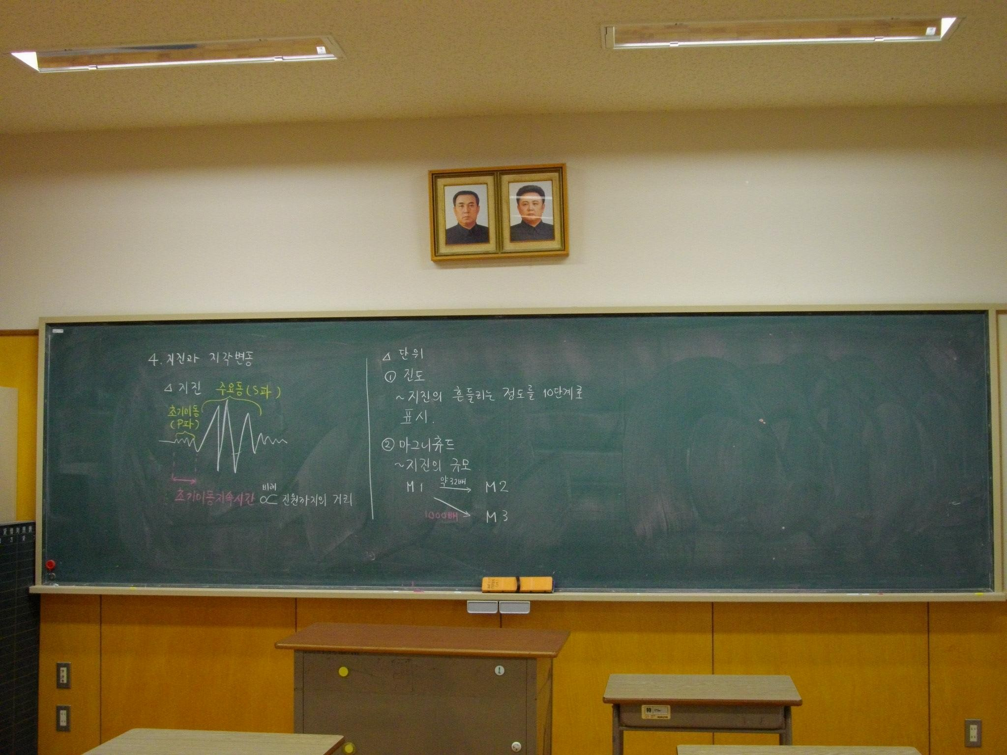 Chosen-gakko(North Korean schools in Japan) classroom. Photo taken by Hoshu at Tokyo Korean Junior and Senior High School.